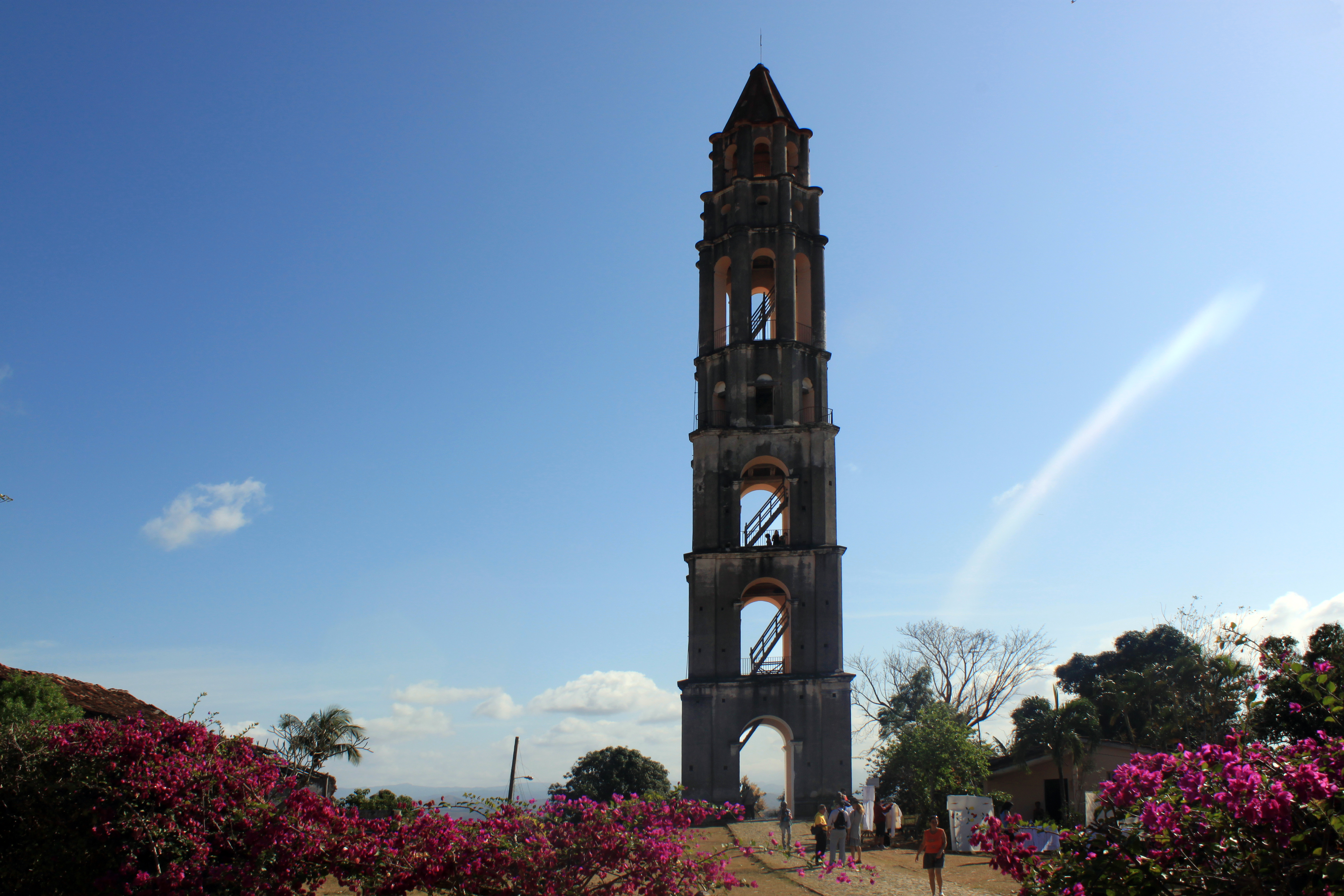 Valle de los Ingenios, Cuba: Tower of the Iznaga plantation